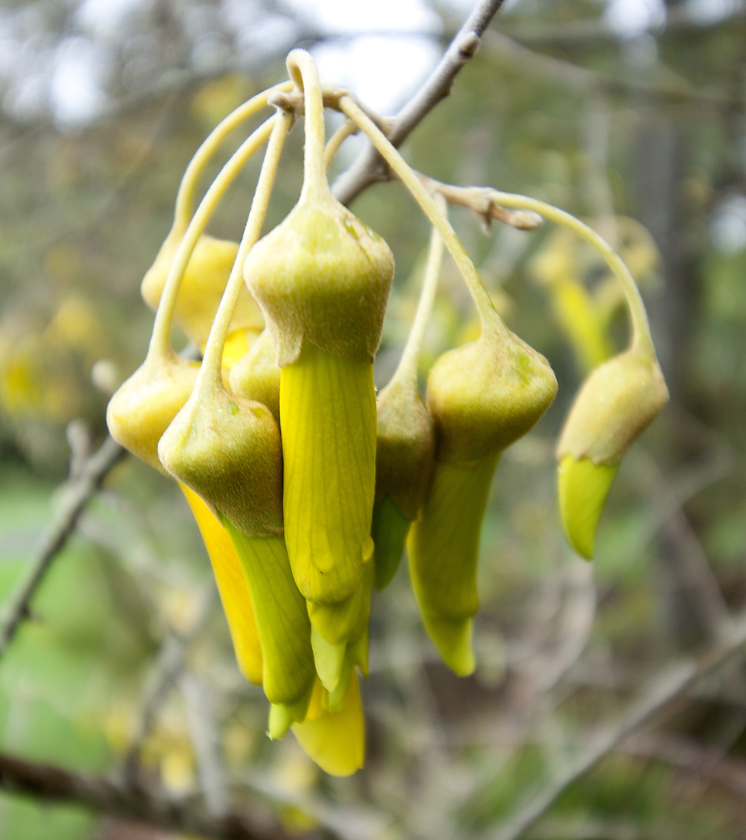 Sophora fulvida (kōwhai) flowers from Queens Park, Invercargill. Naturally grows in northern NZ.